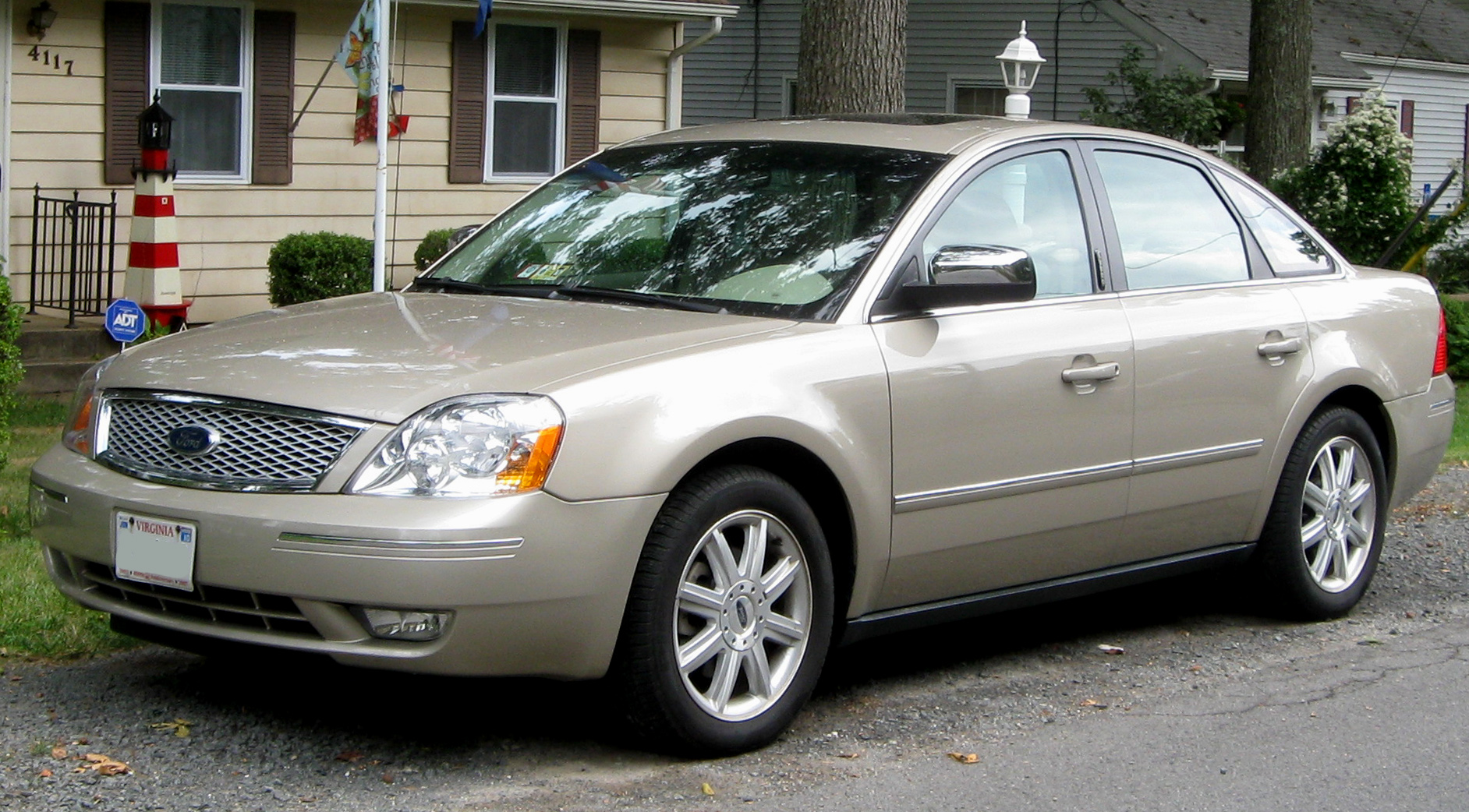 2005-2007 Ford Five Hundred photographed in Fairfax, Virginia, USA.